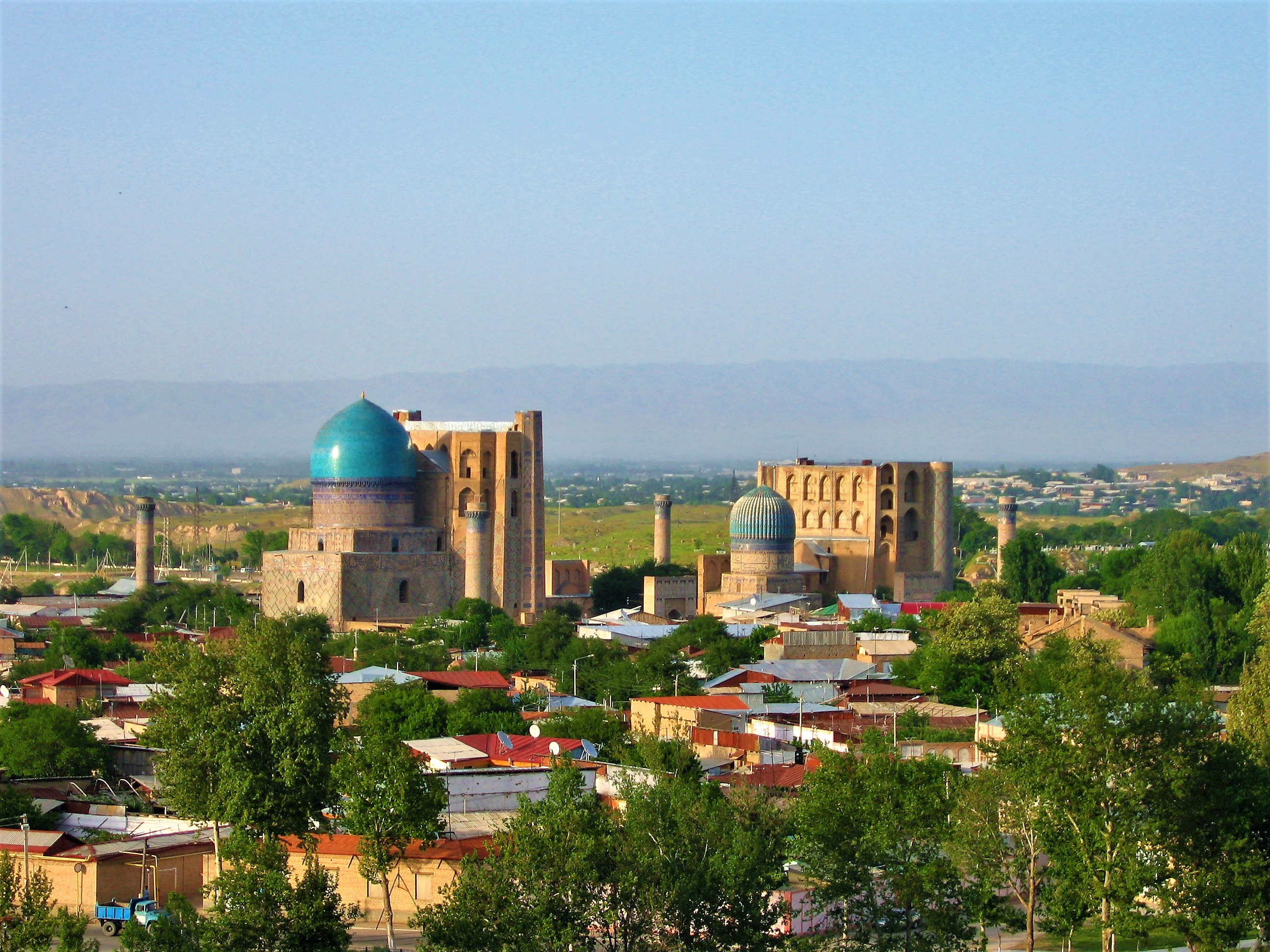 The uzbek city of Samarkand. The big buildings in the center are part of the Bibi Khanym mosque complex.